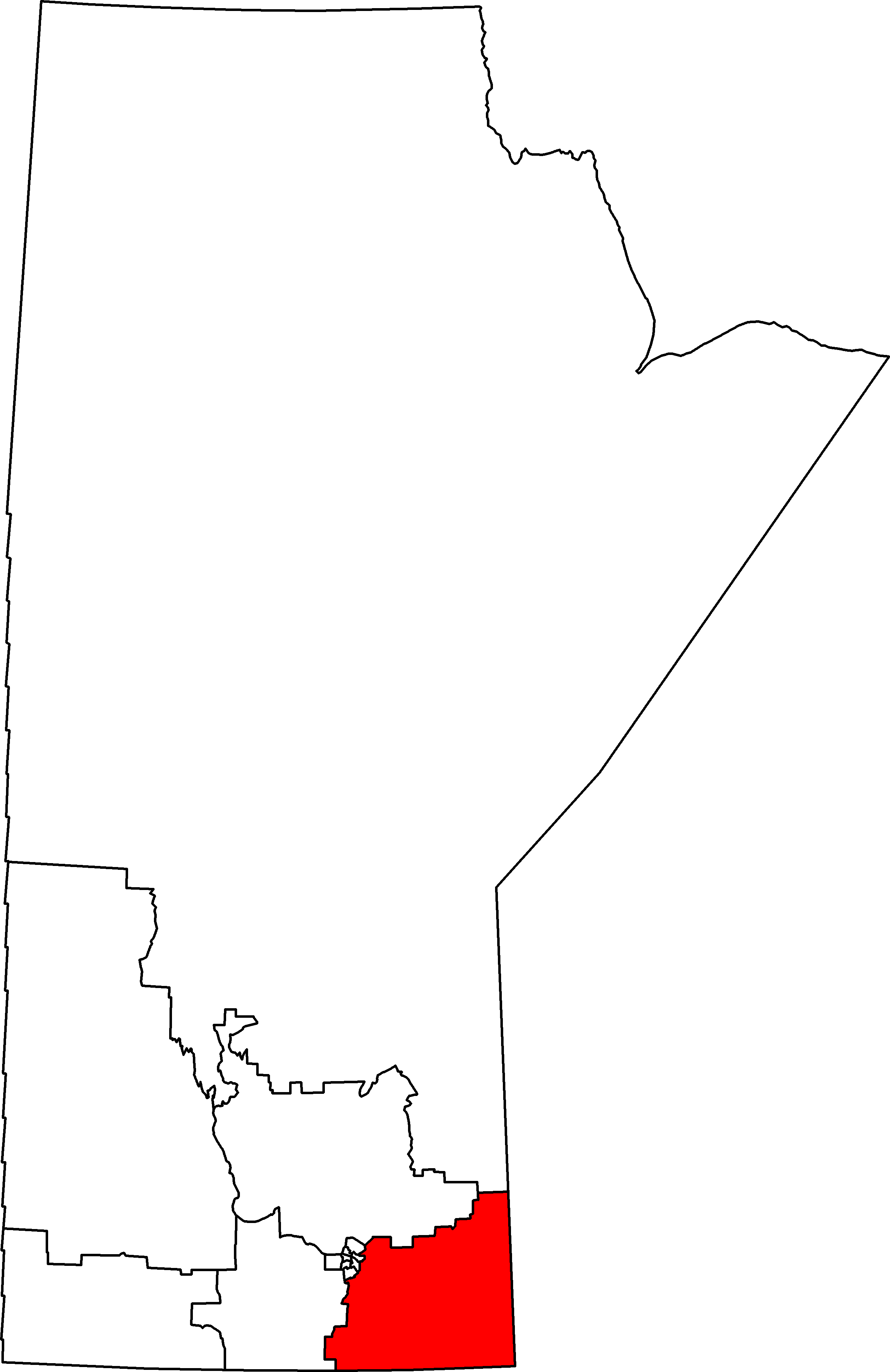 Federal Electoral District in Manitoba, Canada as of the 2013 Representation Order.